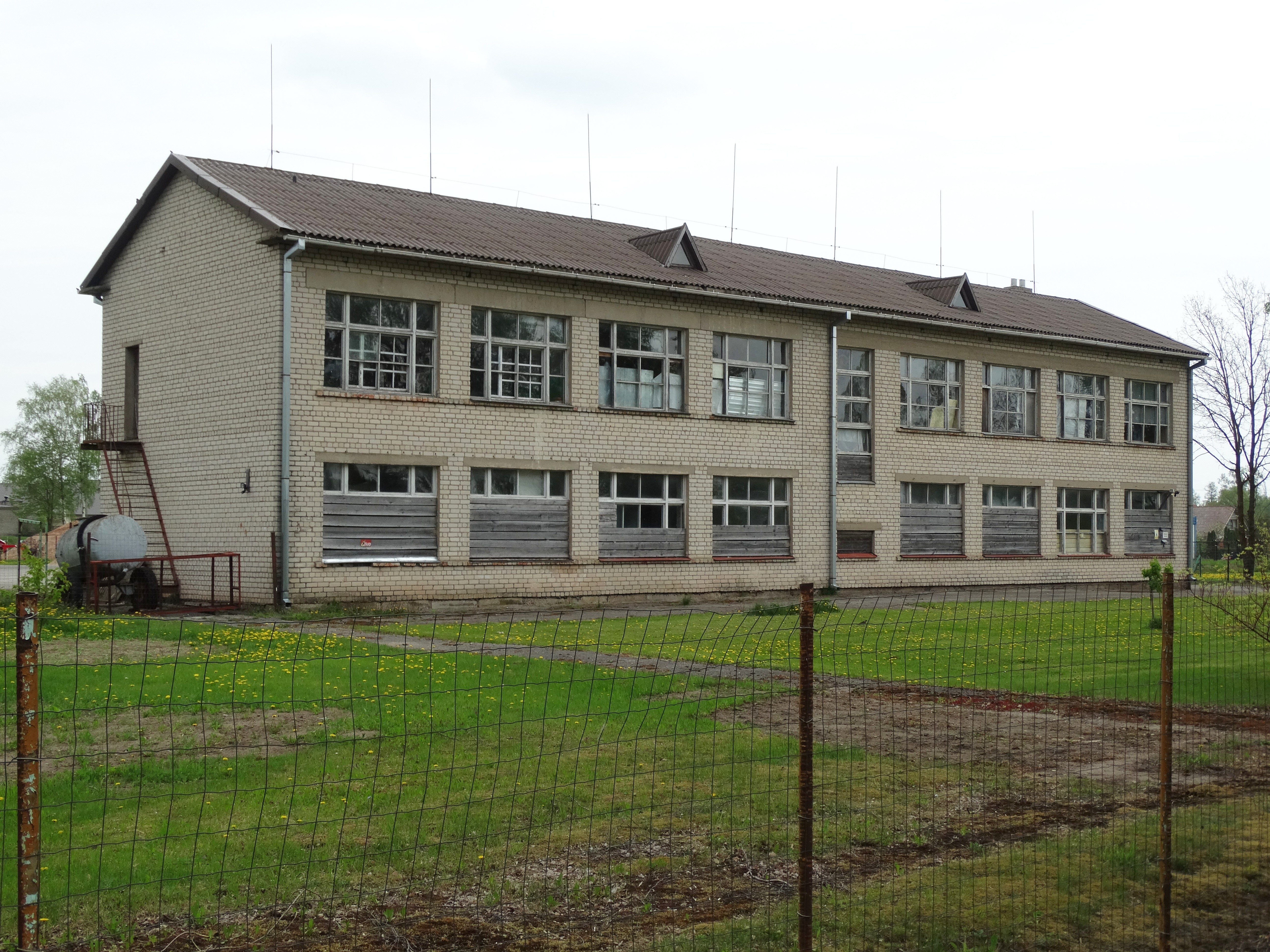 Gačioniai, Pakruojis district, Lithuania